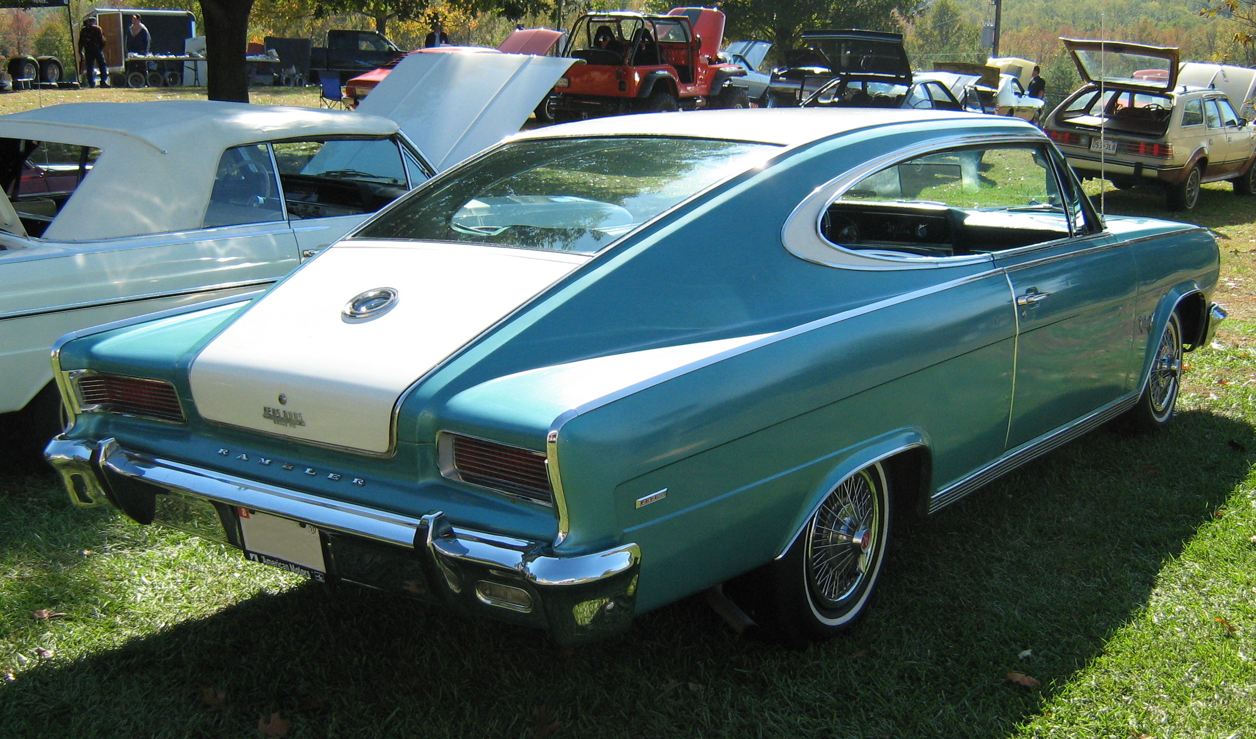 1965 Rambler Marlin by American Motors Corporation (AMC) A sporty "personal-luxury" two-door hardtop fastback.